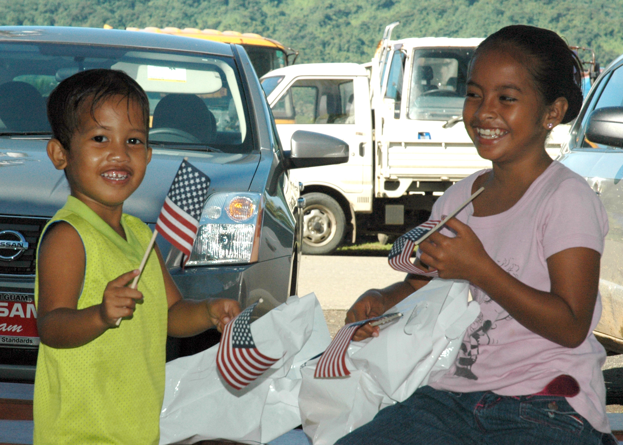 LELU, Kosrae (Aug. 20, 2007) - Micronesian children wave American flags during a medical civic action program at the Lelu town government building during Pacific Partnership. The Pacific Partnership mission is a four-month humanitarian assistance to areas in Southeastern Asia and Oceania. U.S. Navy photo by Mass Communication Specialist 2nd Class Nathaniel J. Karl (RELEASED)